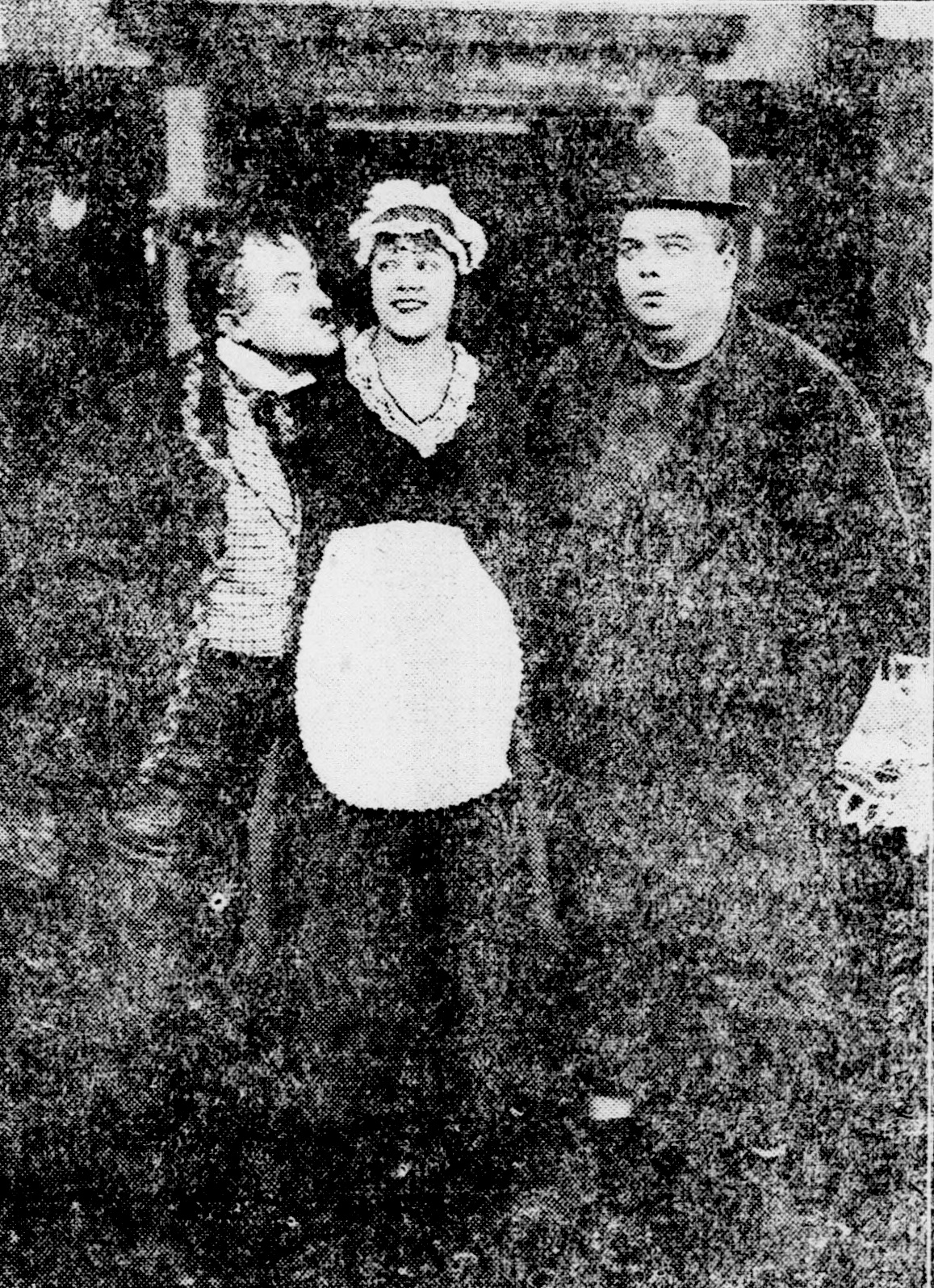 Fatty and the Broadway Stars is a 1915 short comedy film directed by and starring Fatty Arbuckle. This is a publicity photo published in a newspaper.